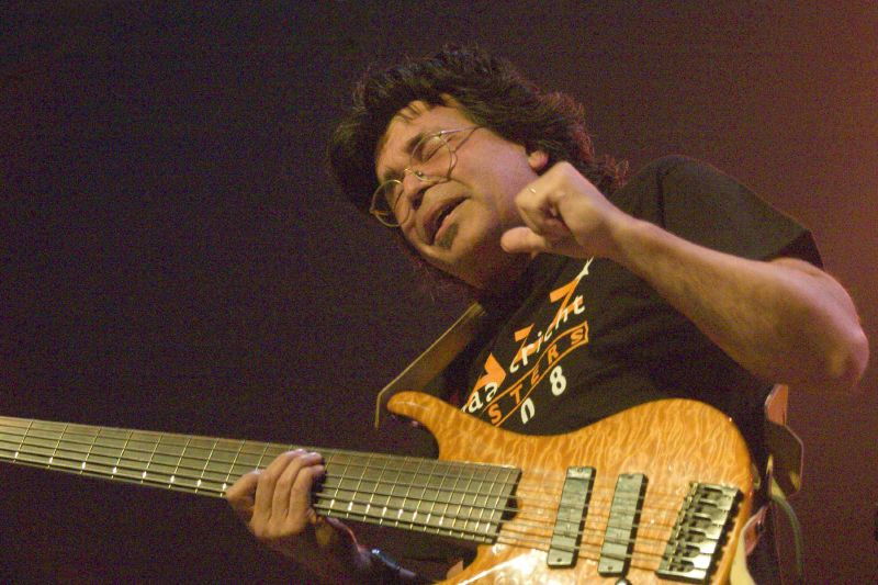 Jimmy Haslip Roscoe LG Series 6 string bass